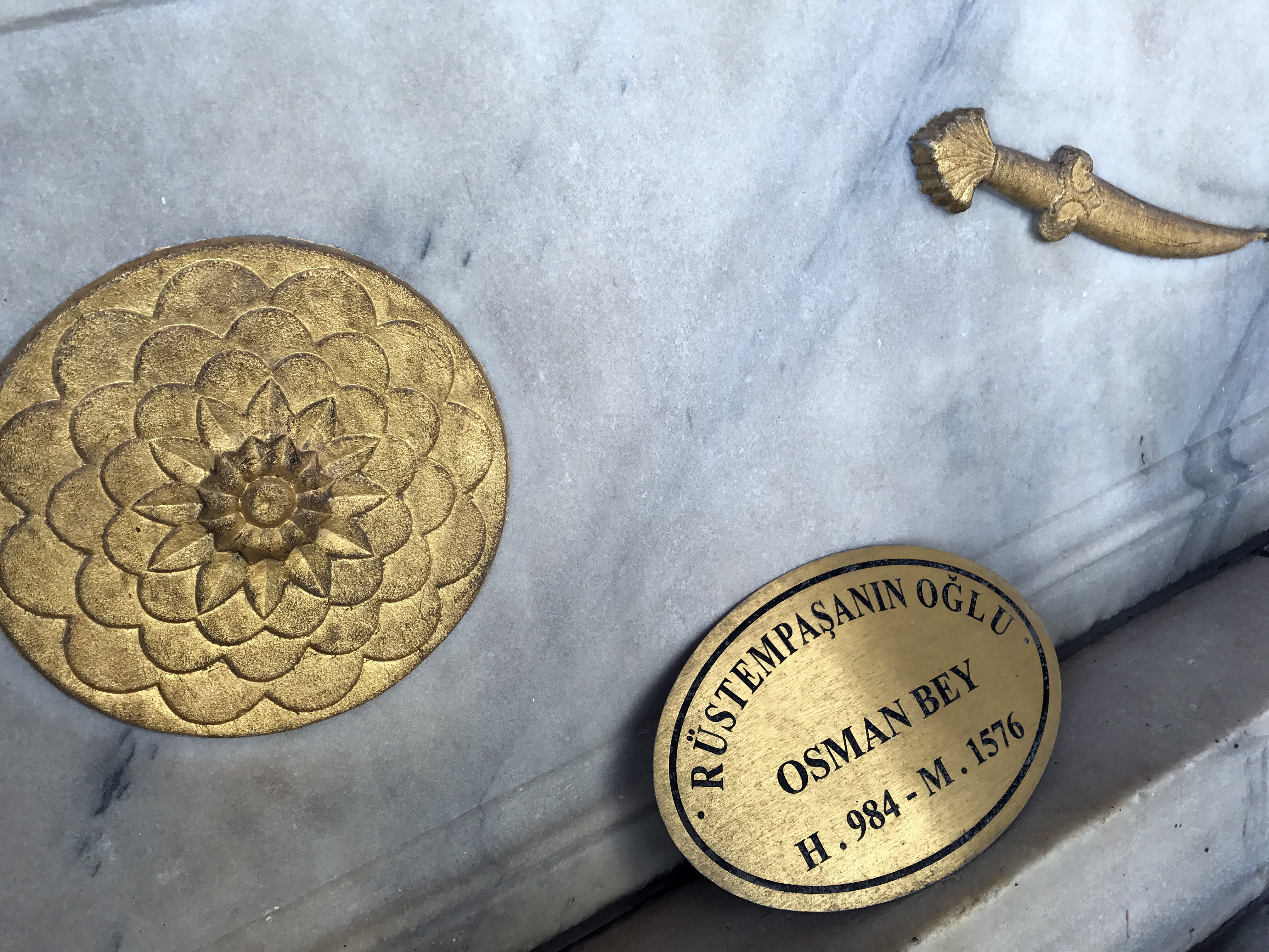 Mihrimah Sultan Mosque (built 1548), is an Ottoman mosque located in the historic center of the Üsküdar municipality in Istanbul, Turkey. It is the first of two mosques built by Mihrimah Sultan, daughter of Sultan Suleiman the Magnificent and wife of Grand Vizier Rüstem Pasha. It was designed by Mimar Sinan and built between 1546 and 1548.